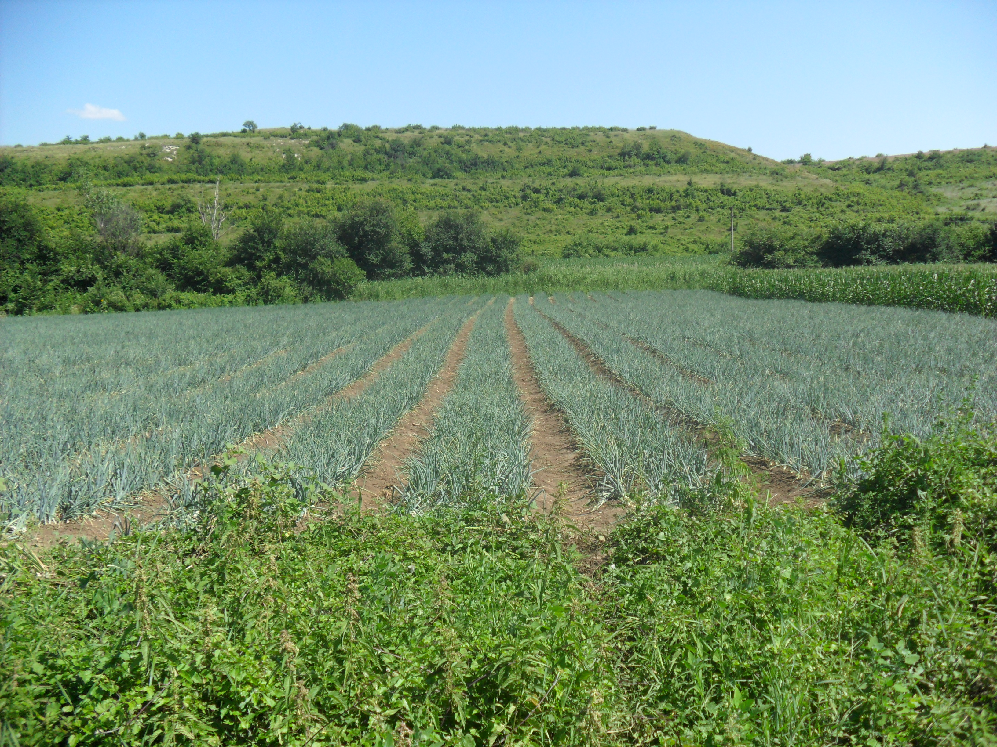 Field North from Bulgarian village Polski Senovets